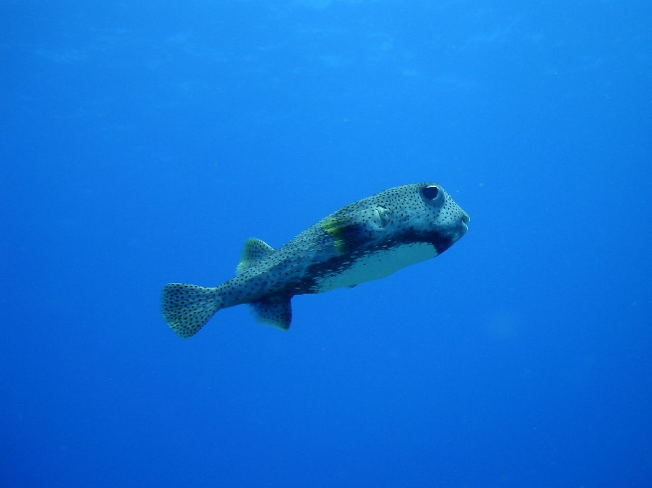 A Diodon fish in Mauritius